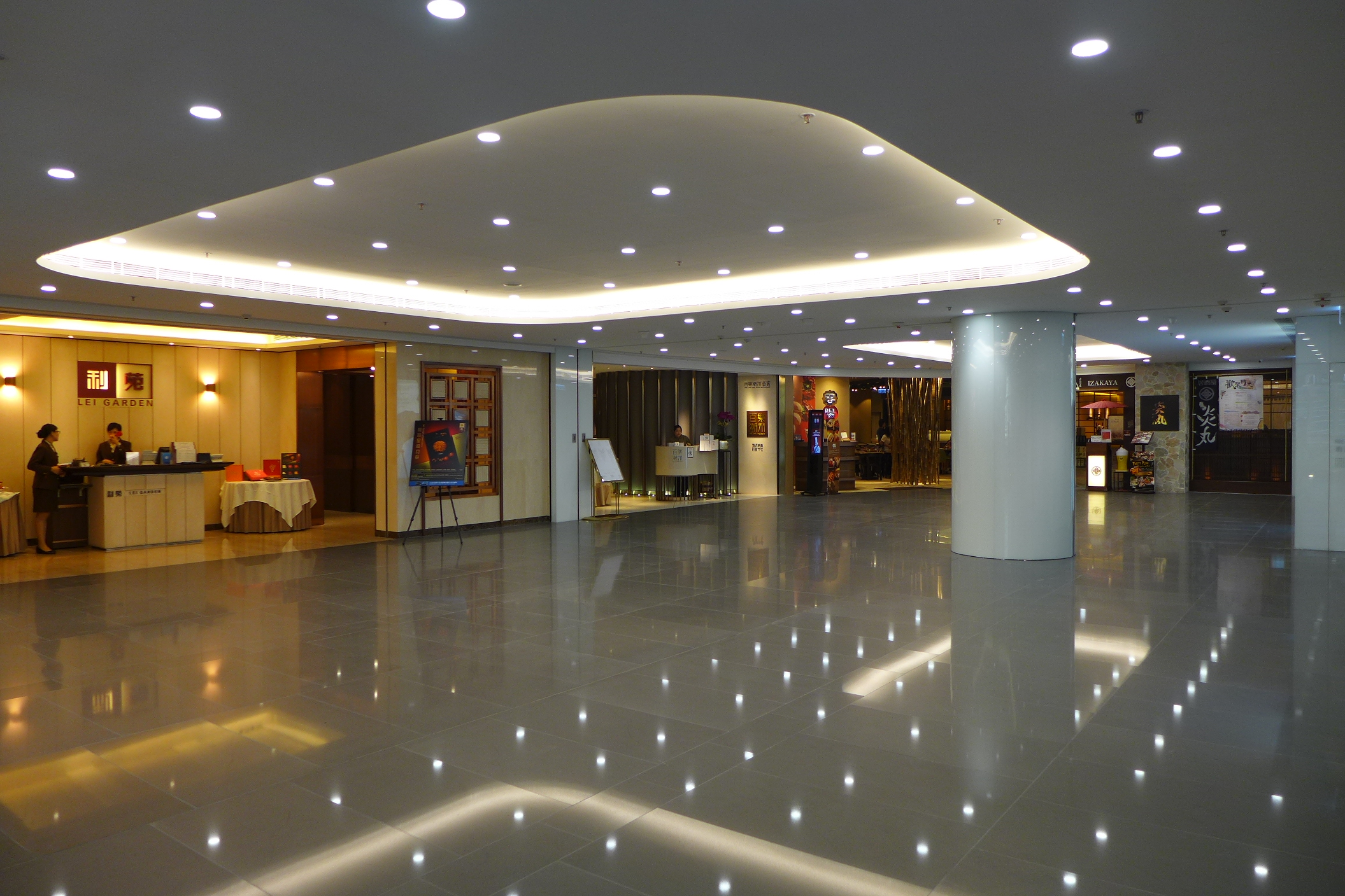 Time Square Food Forum 10F